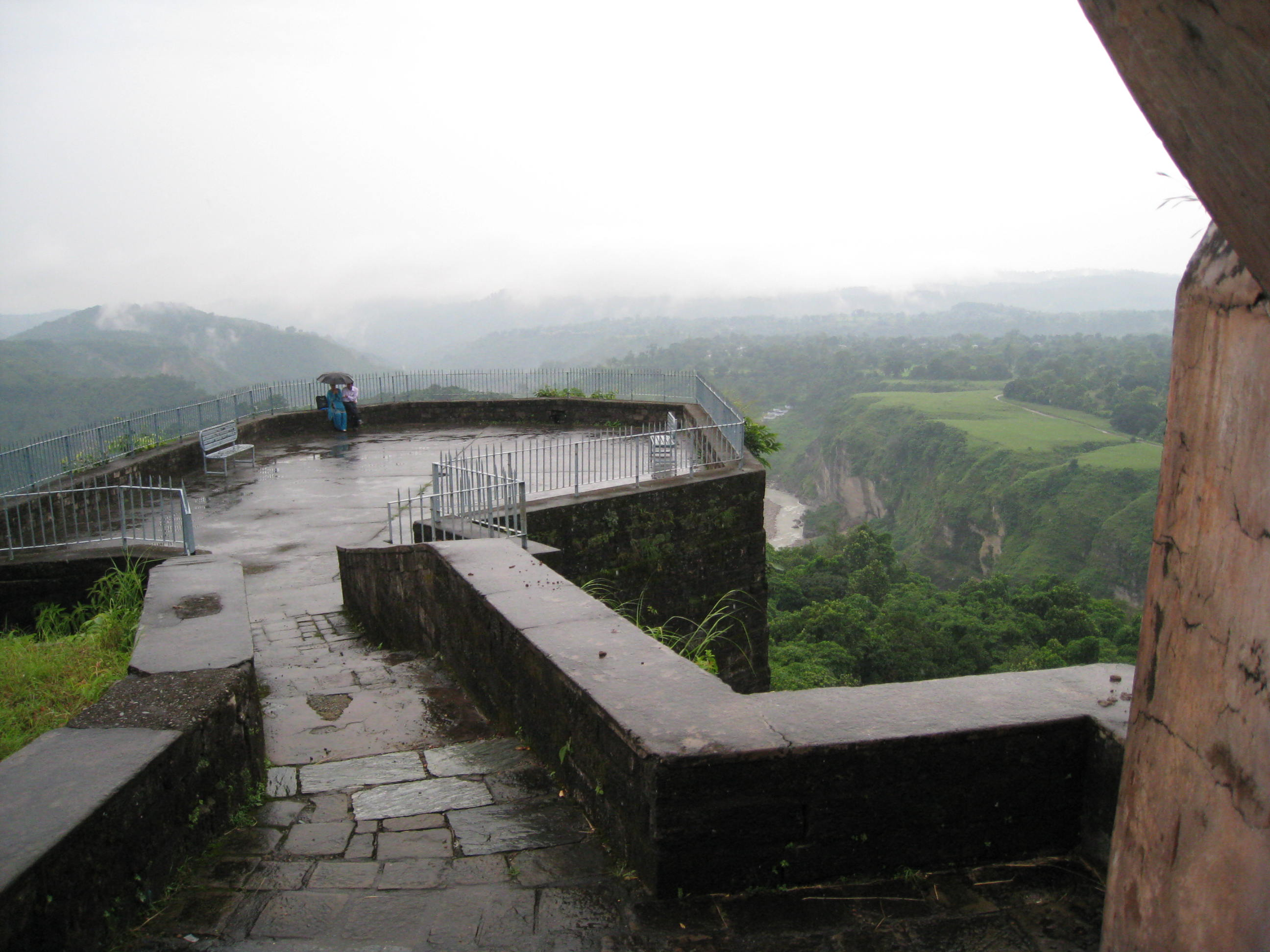 View from the top of Kangra Fort, Kangra Valley, Himachal Pradesh, India